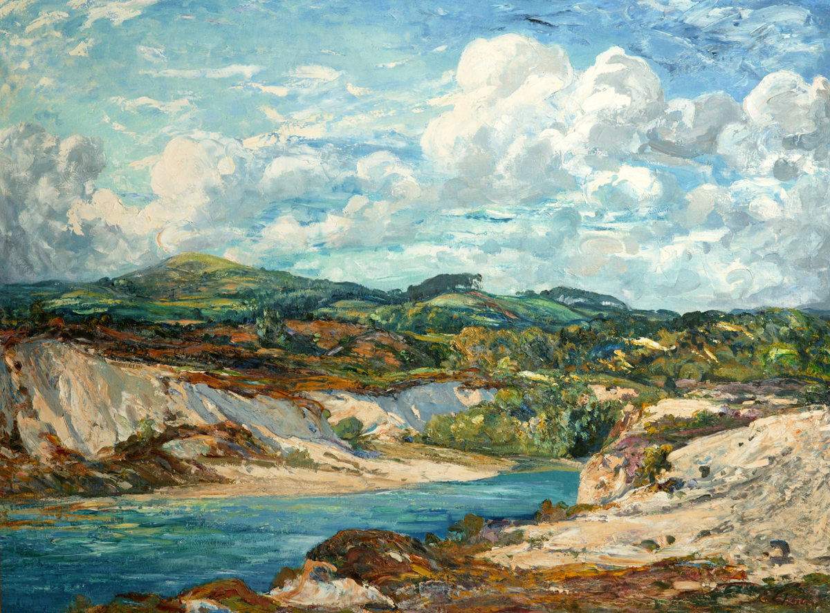 Cheston, Evelyn; Creech Barrow, Dorset; Manchester Art Gallery; letes guess 1900